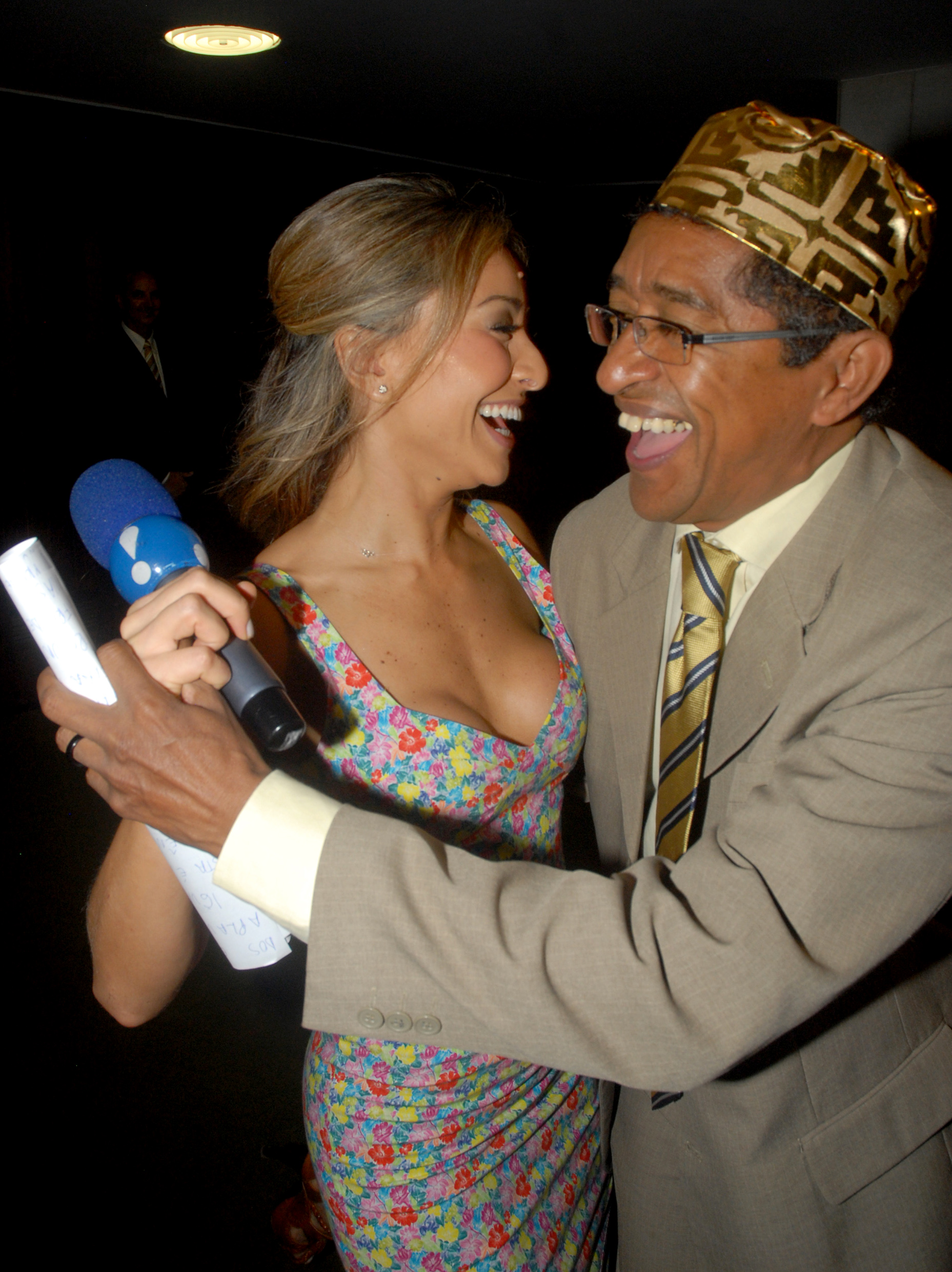 Brasília - While wearing a hat from his travels to Mozambigue, Vicente Paulo da Silva (Vincentinho) dances with reporter Sabrina Sato.